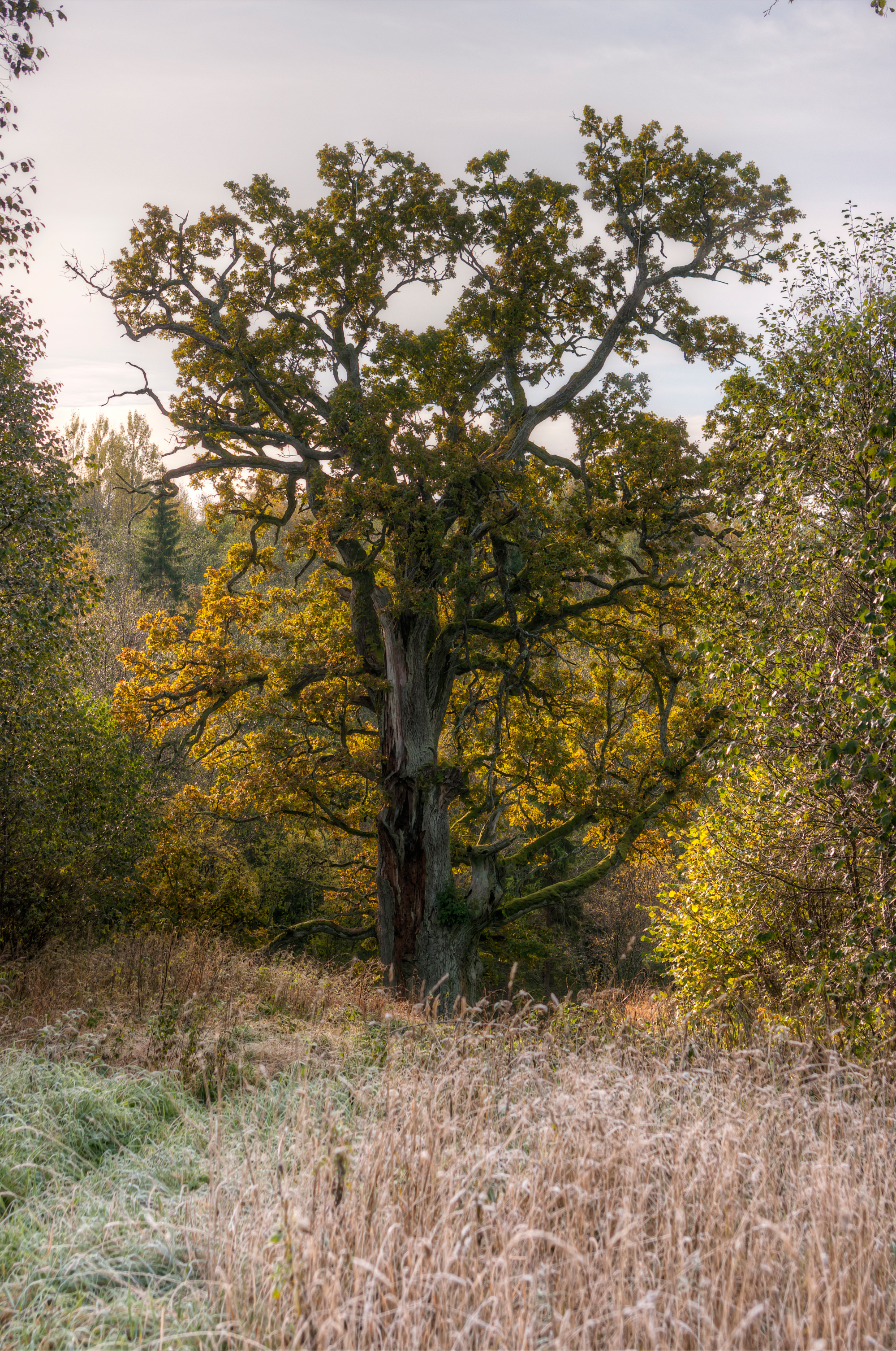 Mäe-Lehtsoo oak